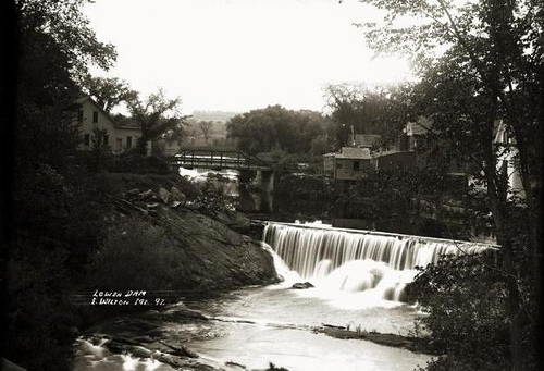 View of the lower dam on Wilton Stream in East Wilton, Maine. Glass negative. Courtesy of the Penobscot Marine Museum. Retouched by MarmadukePercy. Penobscot Marine Museum Native namePenobscot Marine MuseumLocationSearsport, Maine, United StatesCoordinates44° 27′ 33″ N, 68° 55′ 30″ W Established1970Website